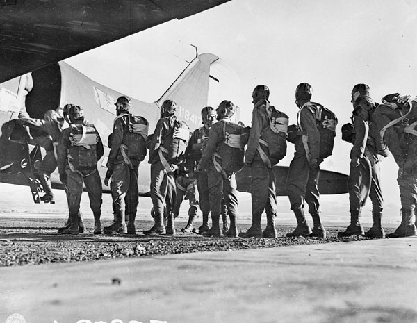 Forcemen of the First Special Service Force boarding a Douglas C-47 aircraft during parachute training at Fort William Henry Harrison, Helena, Montana.